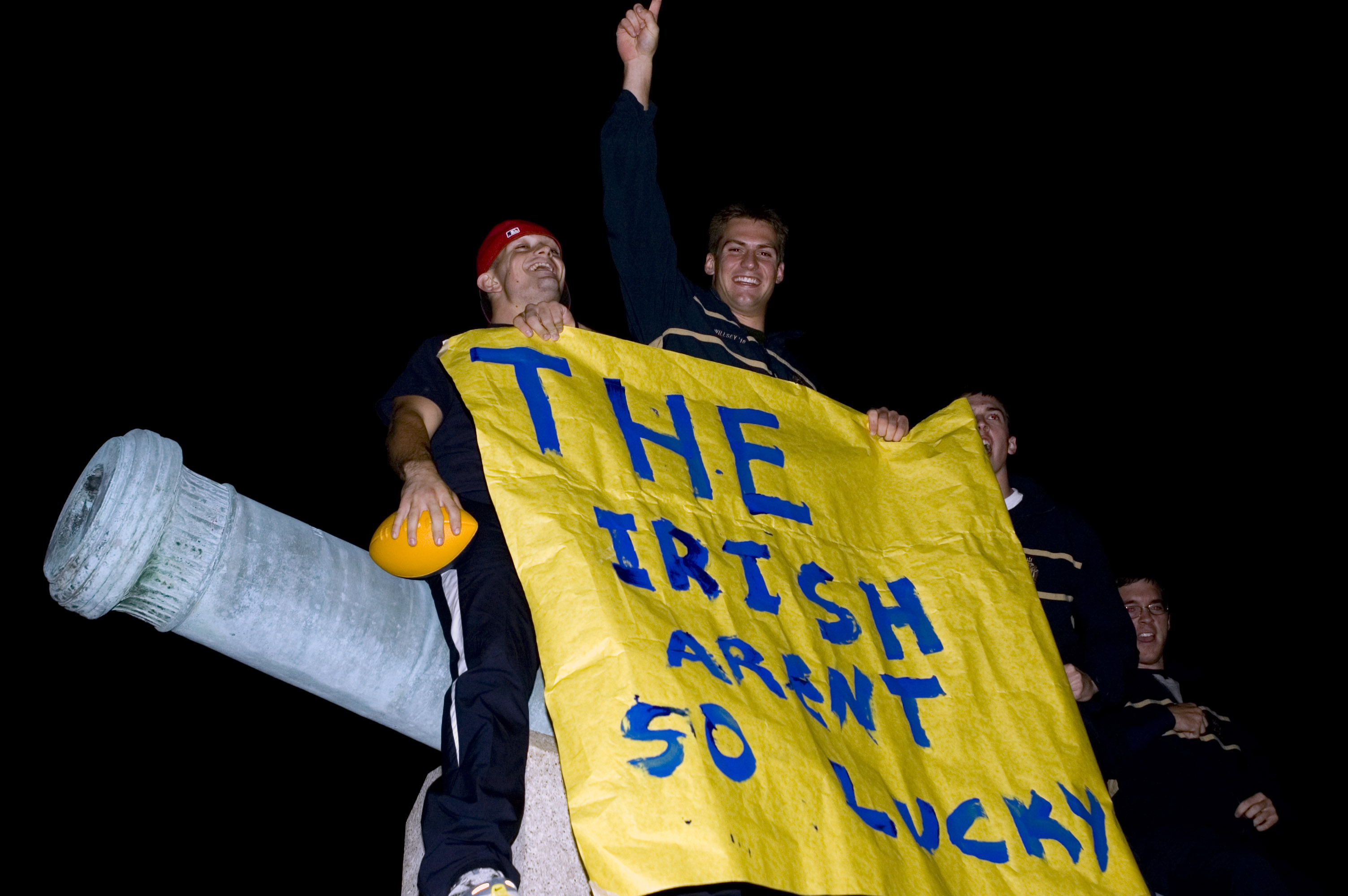 ANNAPOLIS, Md. (Nov. 3, 2007) - During a homecoming celebration at the Naval Academy, midshipmen celebrate Navy's first win in 43 years over the Fighting Irish of Notre Dame. Navy beat the Irish 46-44 in a triple-overtime victory. Navy's last win over Notre Dame was in 1963. U.S. Navy photo by Mass Communication Specialist Seaman Matthew A. Ebarb (RELEASED)